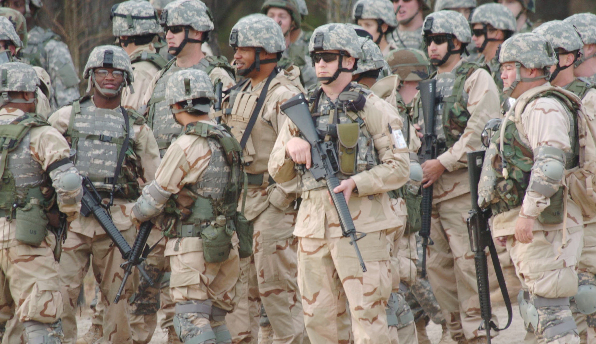 Fort Jackson, S.C. (April 5, 2006) - Sailors prepare for the day's training during the Navy's Individual Augmentee Combat Training course at Fort Jackson, S.C. The fast paced, two week course is instructed by Army drill sergeants and designed to provide Sailors basic combat skills training prior to being deployed as individual augmentees mostly to the U.S. Central Command area of responsibility (AOR). U.S. Navy photo by Journalist 1st Class Jackey Bratt (RELEASED)